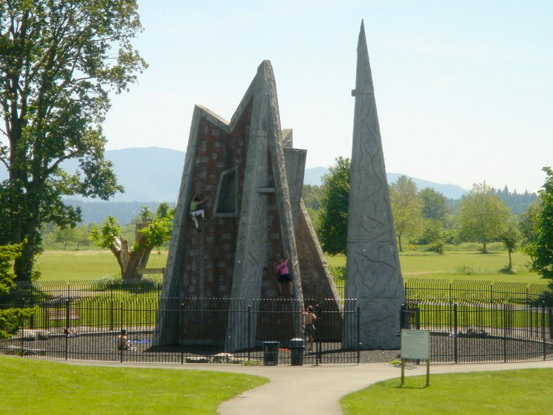 Climbing rock in Marymoor Park in Redmond. Photograph taken by Tradnor on May 25, 2005.